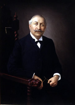 1=Rafael Reyes, President of Colombia from 1904 to 1910.